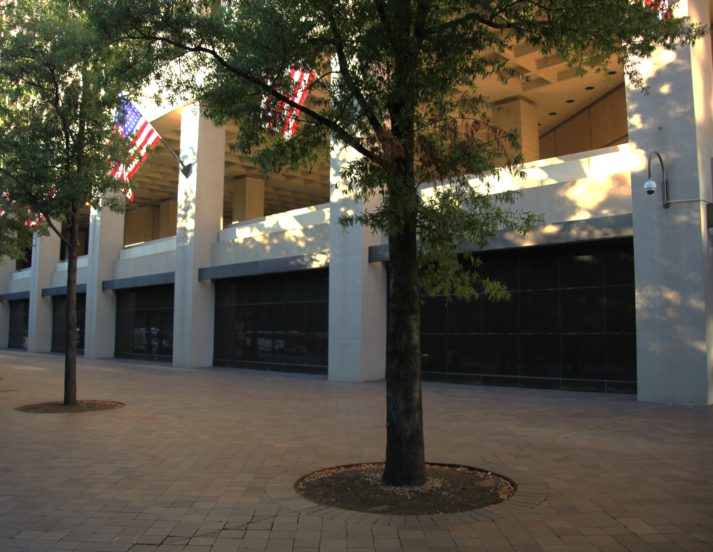 Looking west-northwest at the ground floor of the south facade of the J. Edgar Hoover Building (the headquarters of the Federal Bureau of Investigation) on Pennsylvania Avenue NW in Washington, D.C., in the United States. Urban planners were concerned that the highly secure building would be a "dead space" on heavily trafficked, historic Pennsylvania Avenue NW. They argued that an arcade should run along the south side of the structure, and that street-level retail exist in the building. Concerned about the violence common in the United States in the late 1960s, the FBI resisted both schemes. Federal agencies approved the FBI's design, which left the ground floor of the FBI building on Pennsylvania Avenue NW a blank wall. The FBI has refused to even permit artwork to adorn these spaces, for fear that crowds would be attracted to the building and compromise its security.